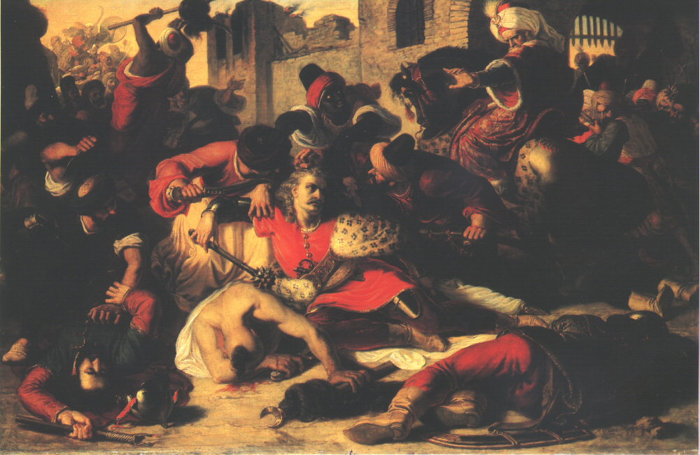 Capture of Nyáry and Pekry at Szolnok